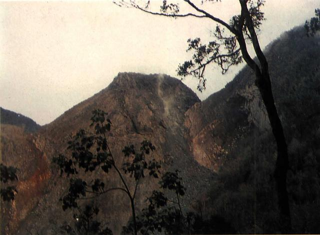 A new lava dome, named Anak Ranakah (center) was formed in 1987 on the outer flanks of the poorly known Poco Leok caldera on western Flores Island. The new dome was located in an area without previous historical eruptions at the base of the large older lava dome of Gunung Ranakah. Anak Ranakah ("Child of Ranakah"), seen here from the SW, is part of an arcuate group of lava domes extending westward from Gunung Ranakah.